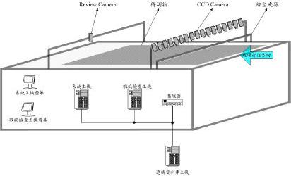 Automatic Optical Inspection,AOI